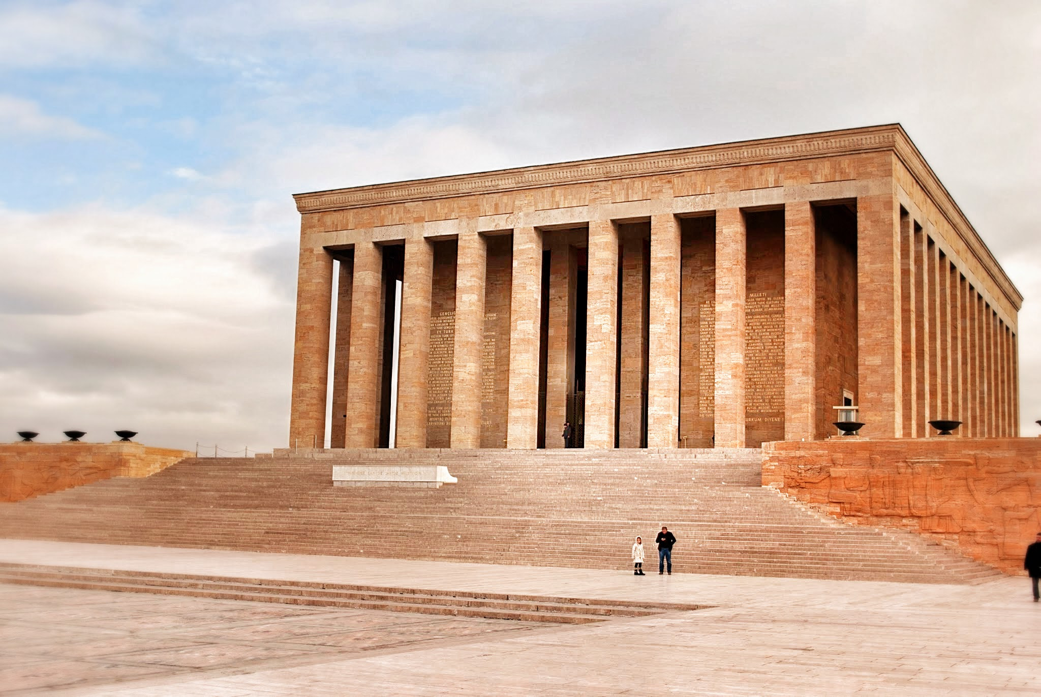 500px provided description: Ankara [#travel ,#light ,#buildings ,#istanbul ,#turkey ,#outdoor ,#architecture ,#building ,#history ,#trip ,#photography ,#student ,#indoor ,#erasmus ,#follow ,#turchia ,#Ankara]